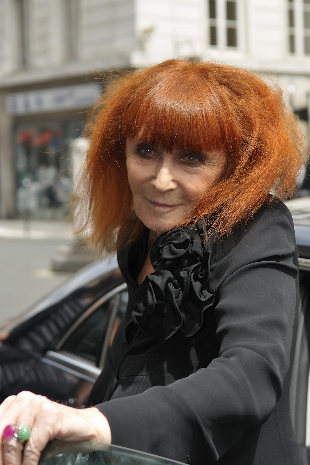 French fashion designers Sonia Rykiel.